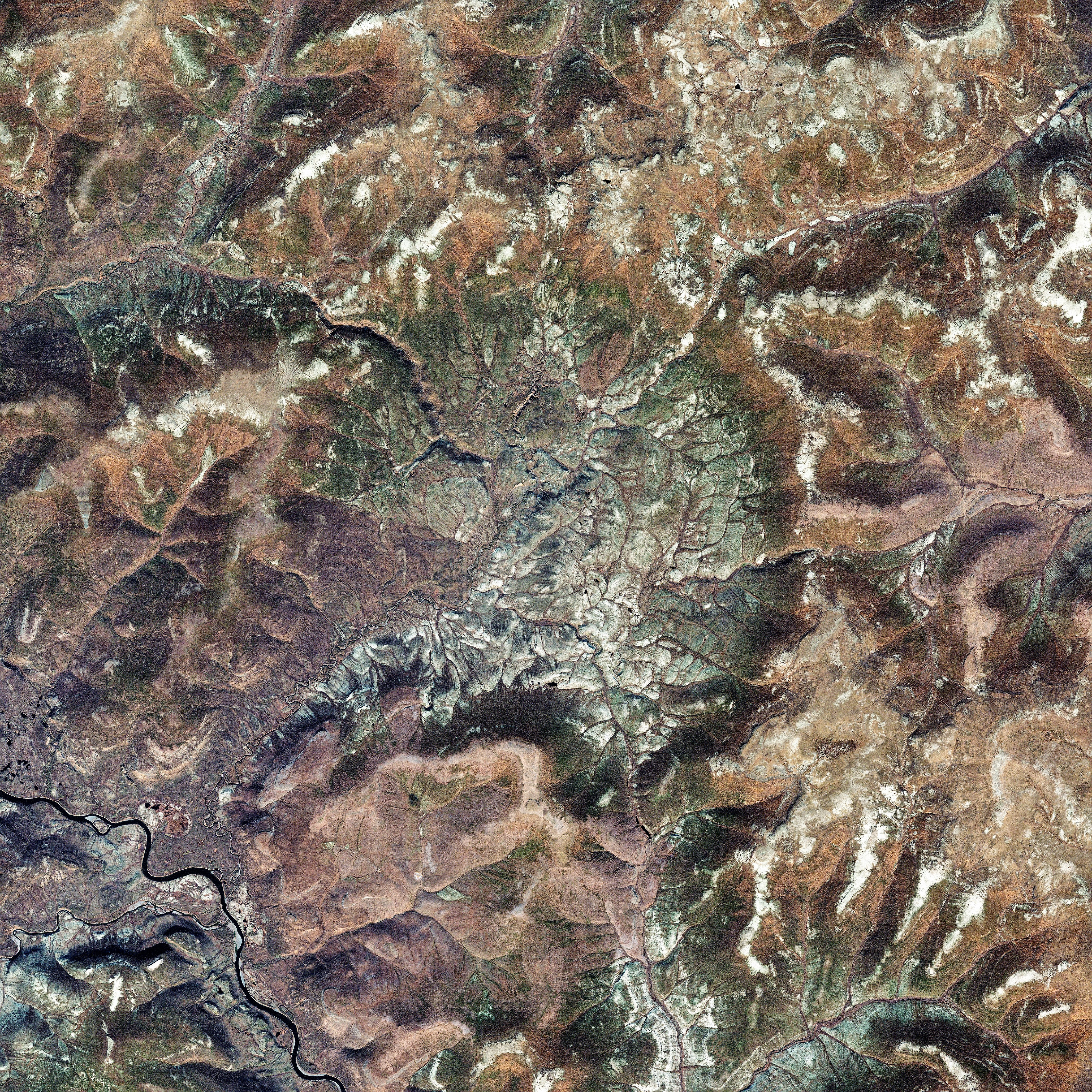 Logancha impact crater, Krasnoyarsk Krai, Russia, Sentinel-2 satellite image, 2018-09-29, Sentinel-2 satellite image, 2016-06-06, spatial resolution 10 m, near natural colors